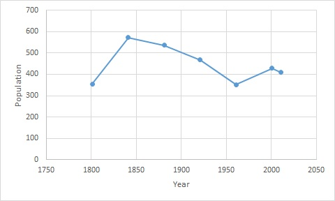 Total population of Henstead Civil Parish, Suffolk, from 1801-2011, as found from .uk, and .uk.